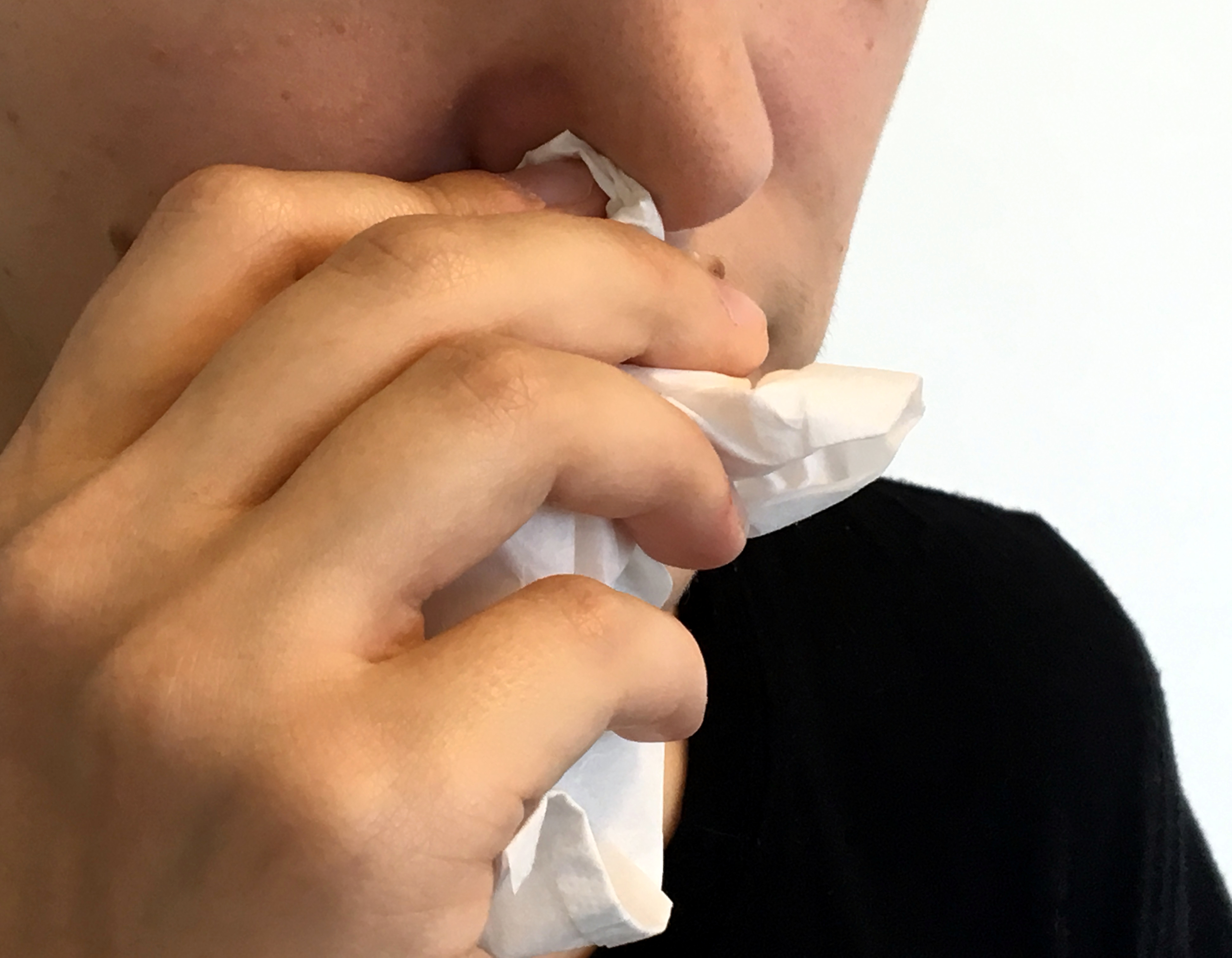 A person holding a tissue to their nose. Credit: NIAID